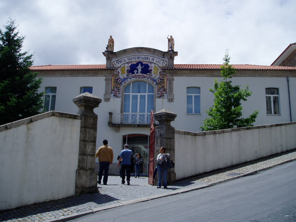 The engineering building of University of Beira Interior O pólo das engenharias da Universidade da Beira Interior